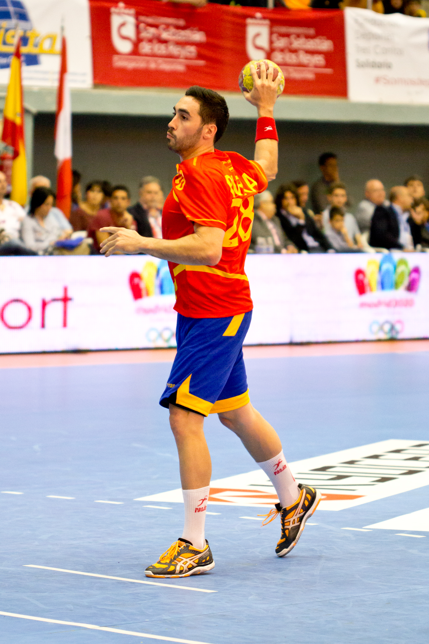 Spain Handball All Star Game 2013, held in San Sebastián de los Reyes, Madrid, Spain.